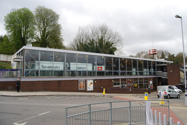 Sevenoaks Station